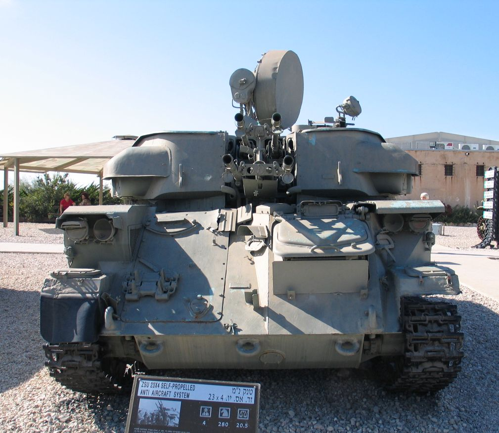 Description: Soviet ZSU-23-4 self propelled air defence cannon in Yad la-Shiryon Museum, Israel. 2005. Source: Photo by me, User:Bukvoed.